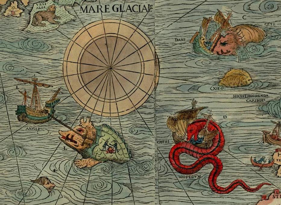 Sea Monsters of the Norwegian Sea; Detail of Olaus Magnus's Carta Marina (1539)